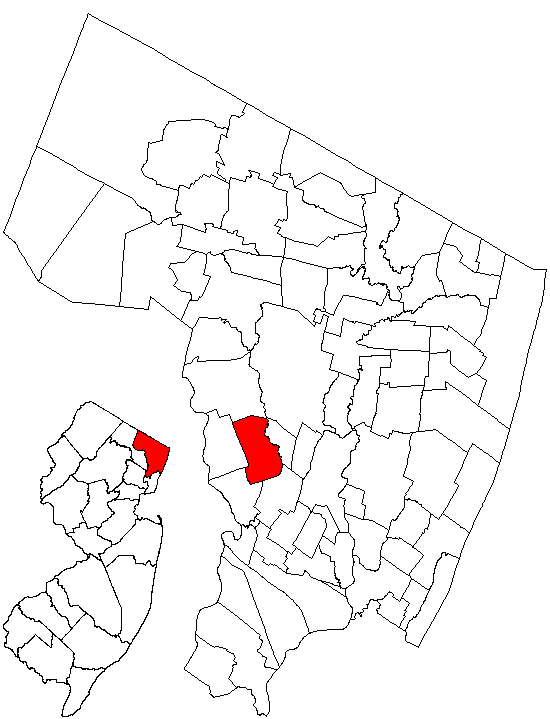 Map showing Saddle Brook within Bergen County, NJ.